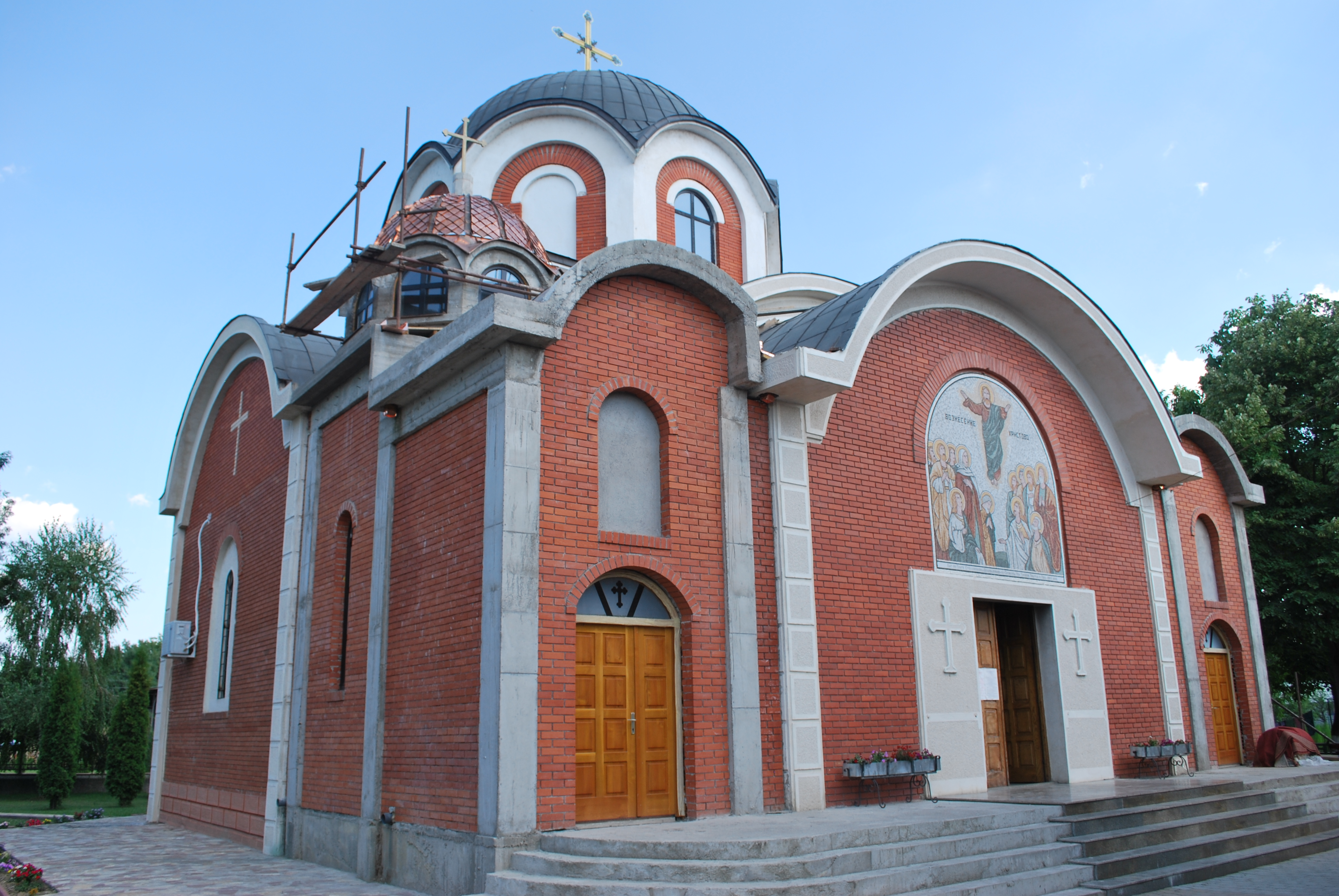 Church of the Ascension of Jesus (Sv. Spas) in Madžari, Macedonia